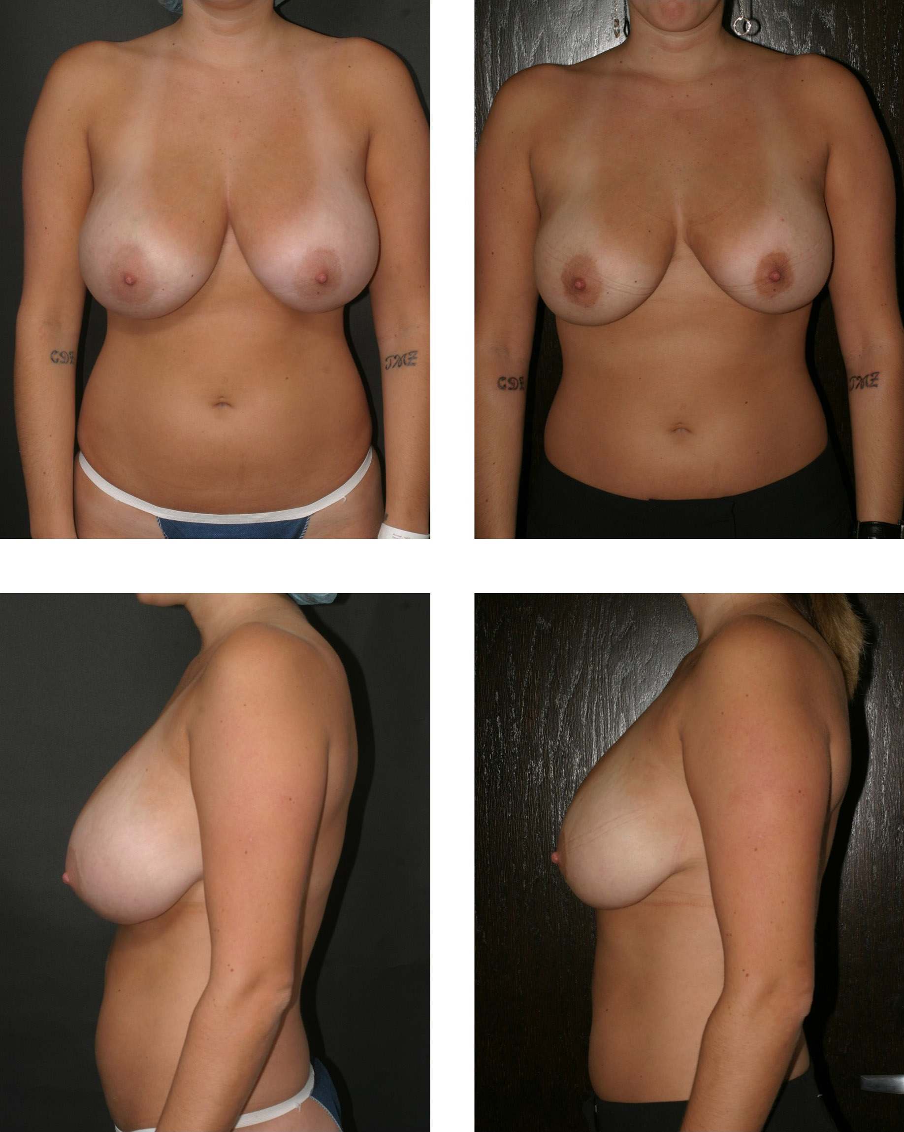 Bilateral breast reduction from utilizing lipectomy technique